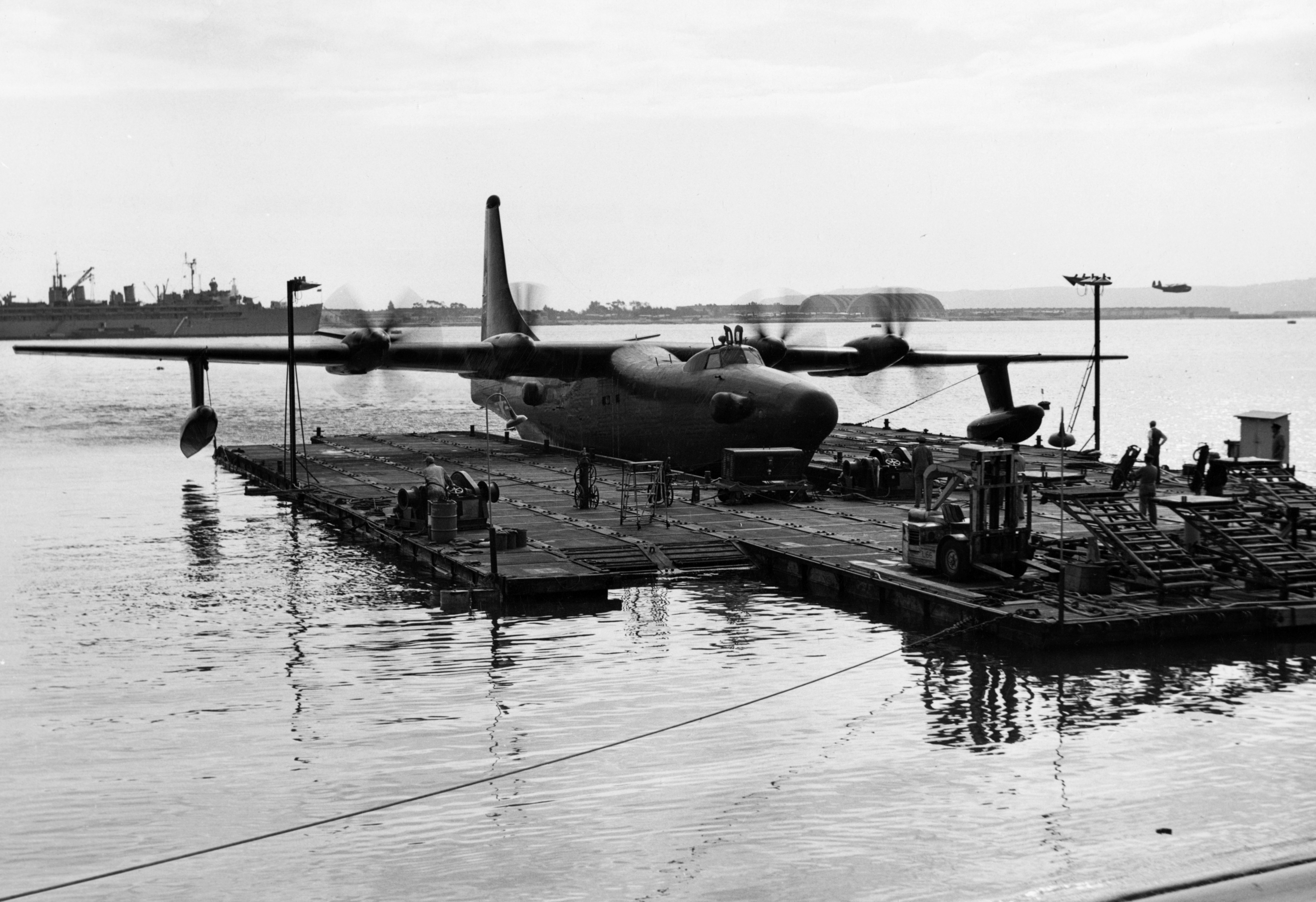 The Convair XP5Y-1 Tradewind docks on the day of its first flight on 18 April 1950 at San Diego, California (USA).